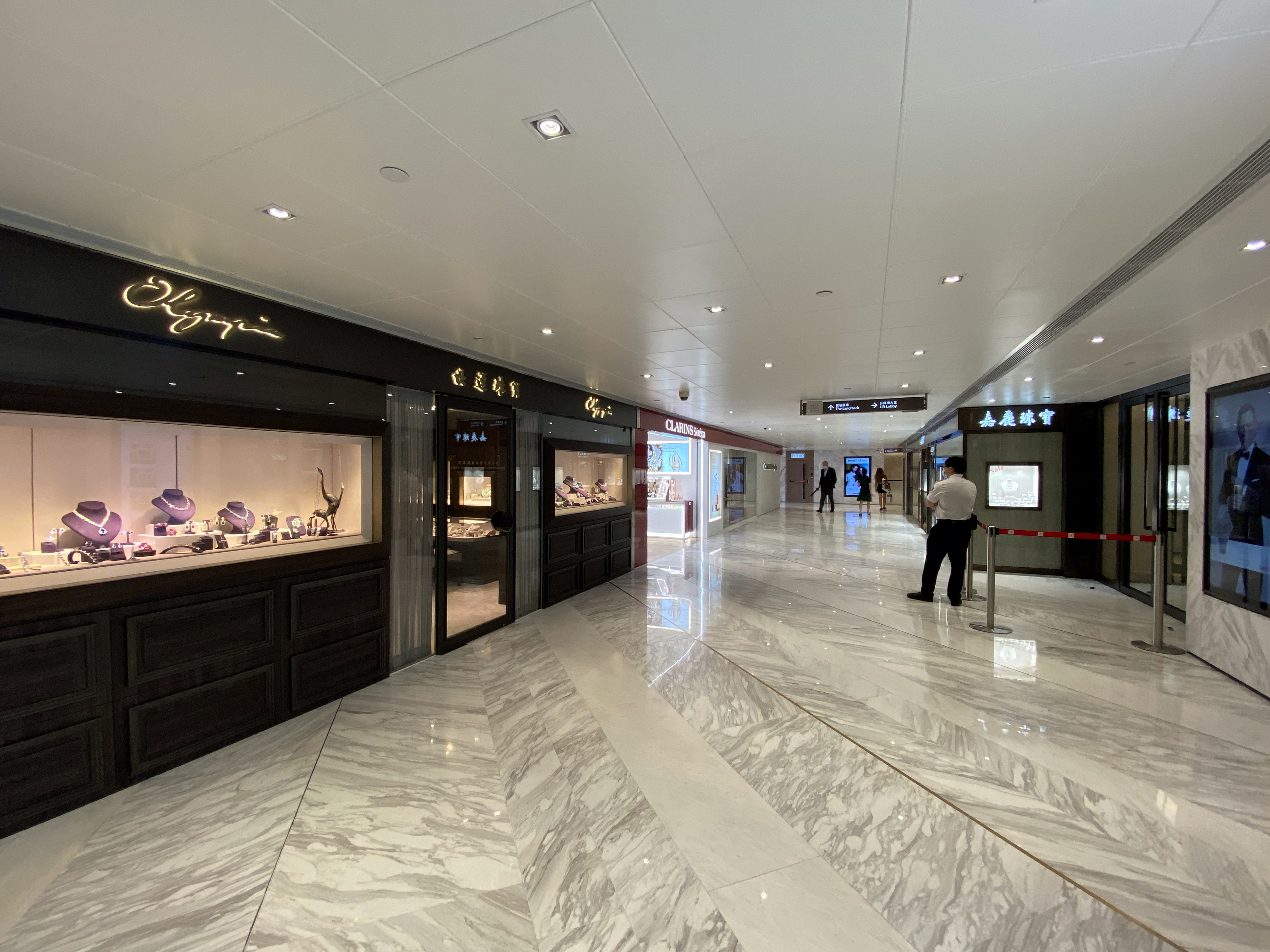 Central Building Level 2 after renovation